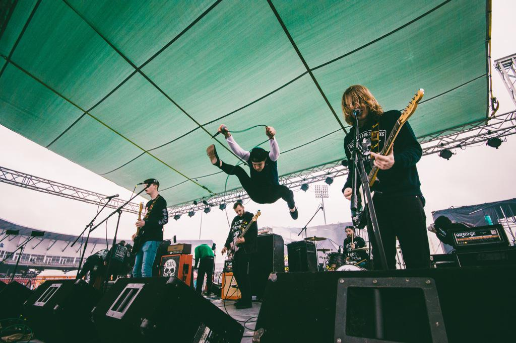 As It Is performing at SXSW